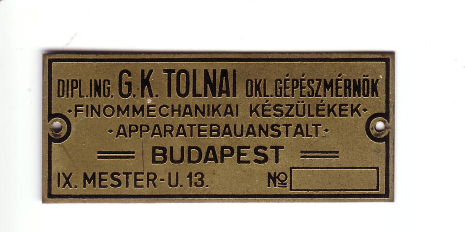 Dipl-ing. G. K. Tolnai's display for his own manufacured apparatus, equipment and devices in his own precision-tool workshiop in Hungary, IX. Budapest, Mester útca 13 (1928-1931).